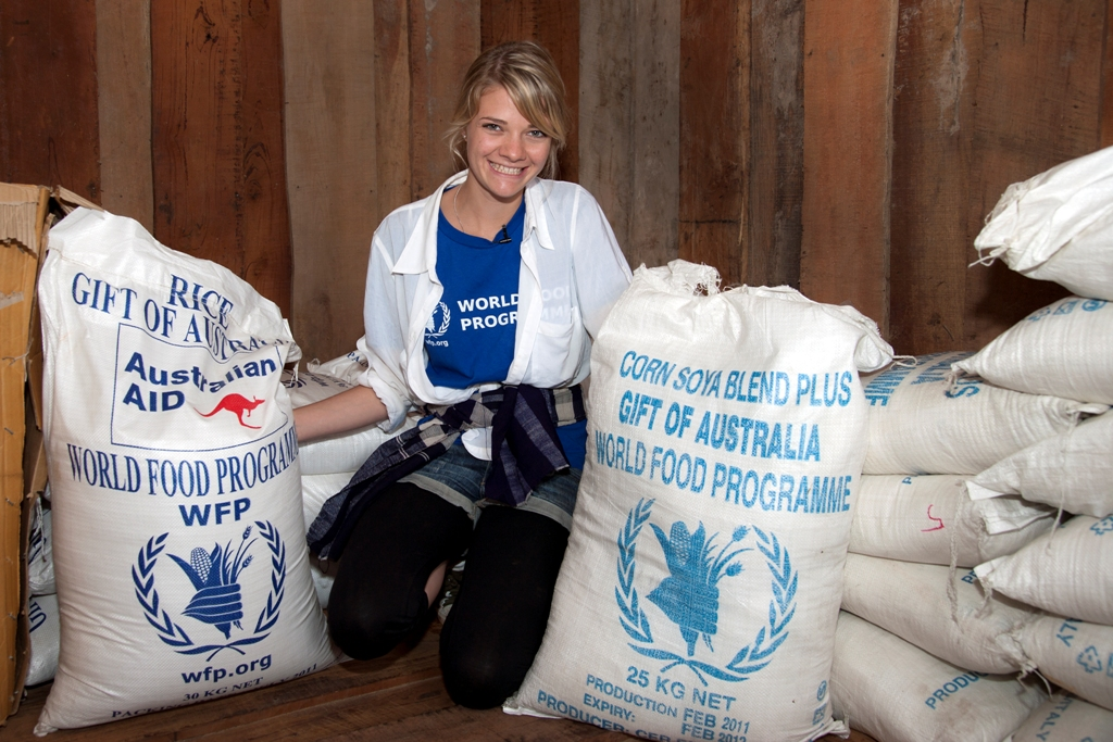 Jessica Watson in the Ban Na village school in the south of Laos with bags of rice and soya blend, a token of the $500,000 that the Australian government has just donated to the WFP's School Feeding Programme in Laos. Jessica said it makes you proud to be Australian when you see some of the things we're doing with our foreign aid. Jessica is a Youth Representative for the WFP.